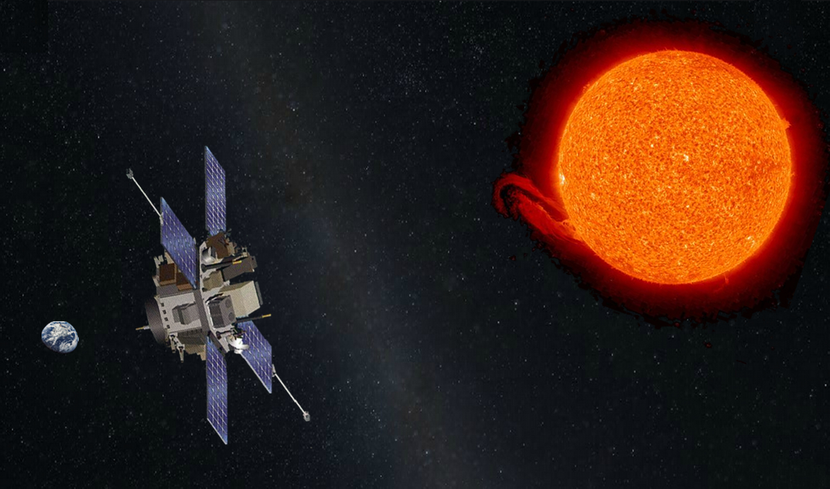 An artist's rendering of the Advanced Composition Explorer (ACE) in orbit around the Sun–Earth L1 Lagrange point. Wizja artystyczna sondy Advanced Composition Explorer (ACE) na orbicie wokół punktu L1 układu Ziemia – Słońce.